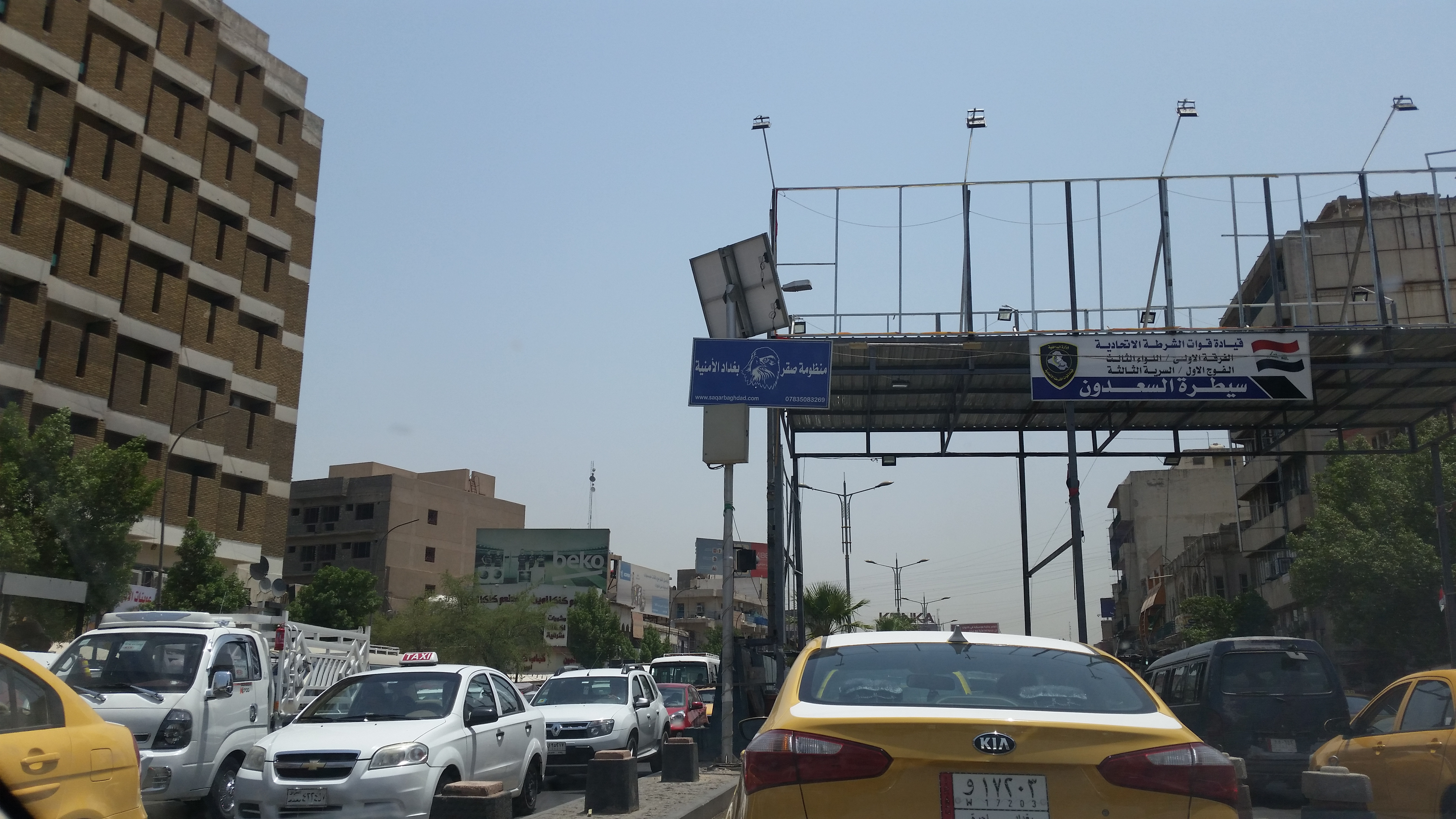 Saqr Baghdad - Check point - Saadon street in Baghdad